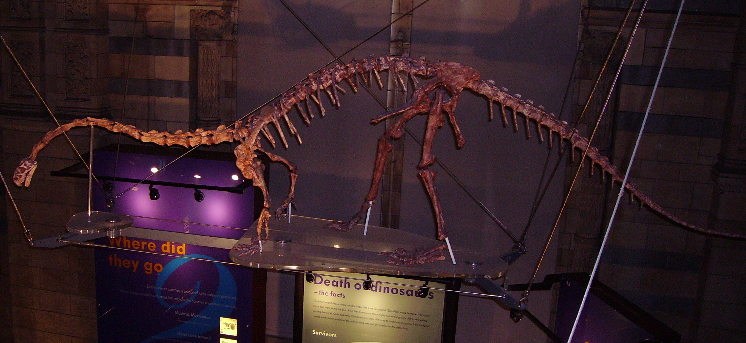 Massospondylus - Natural History Museum, London